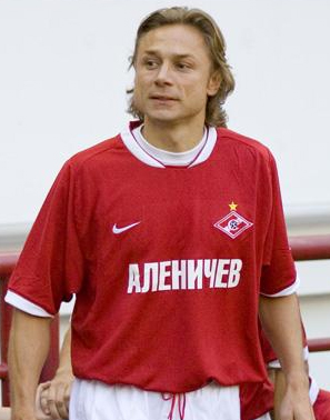 Valery Karpin, Russian footballer.